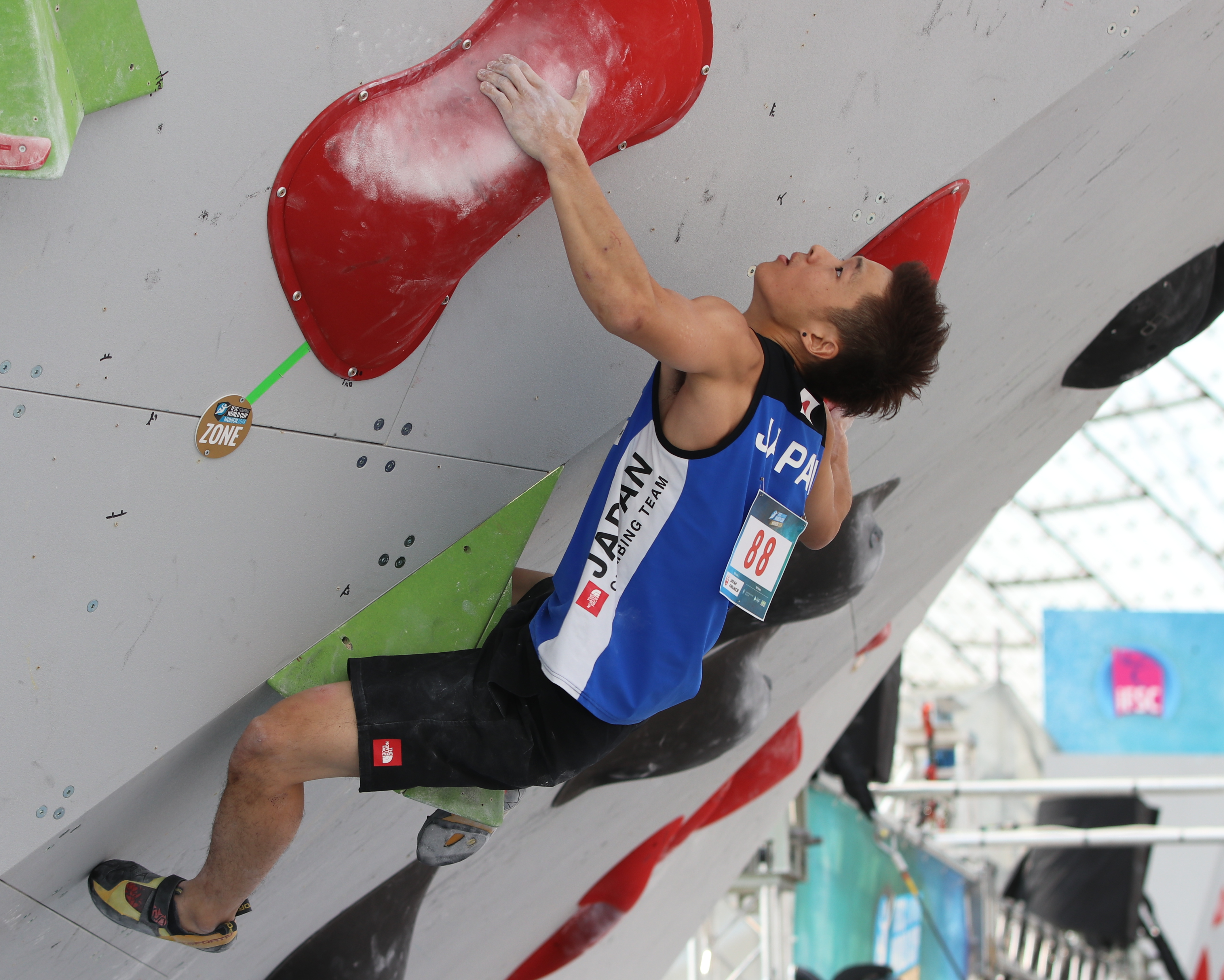 Boulder Worldcup 2018, Final Event in Munich 2018-08-18, Semi-Finals.